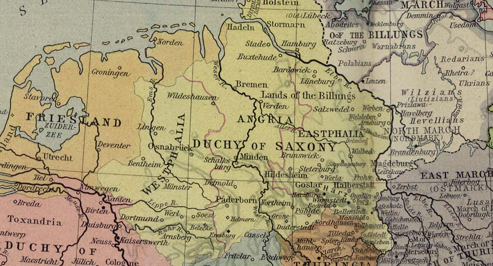 Duchy of Saxony at 919-1125 in nothern Germany